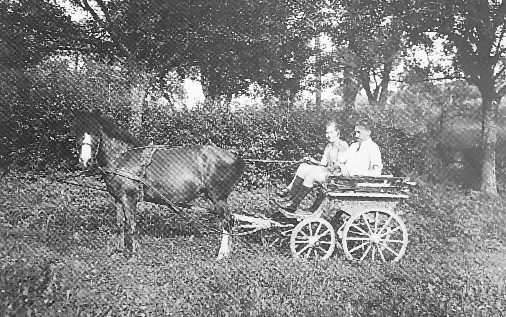 Weinbrenner mit seinem Huzi